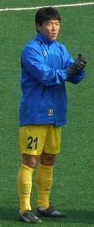 Hong Yong-Jo as a player of FC Rostov